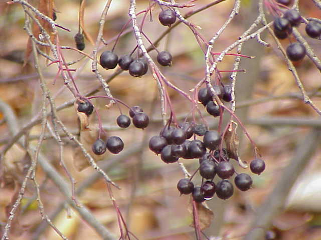 Species: Aronia prunifolia Family: Rosaceae Image No. 1